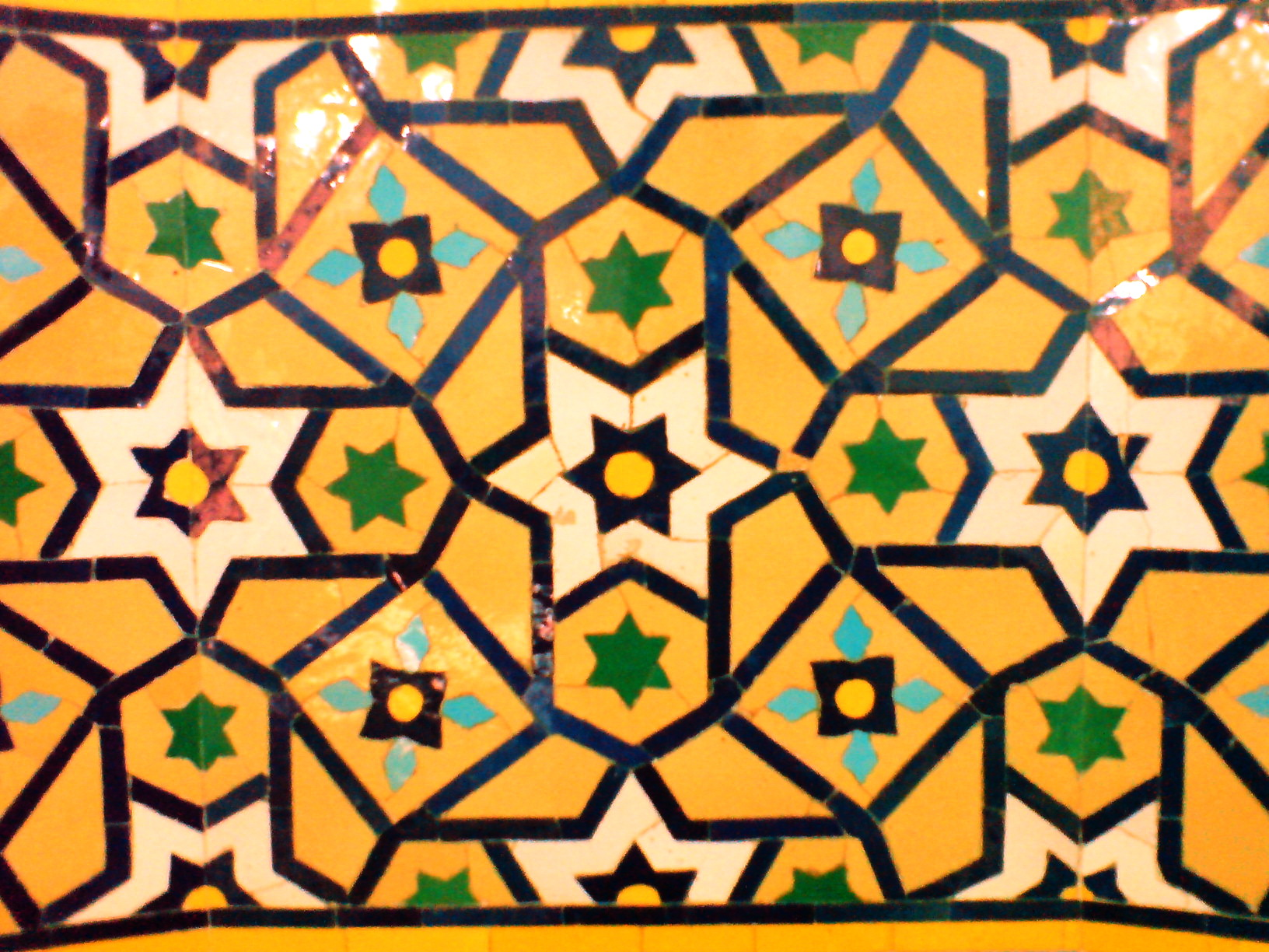 Tiles_of_Al-Mahruq_Mosque nishapur